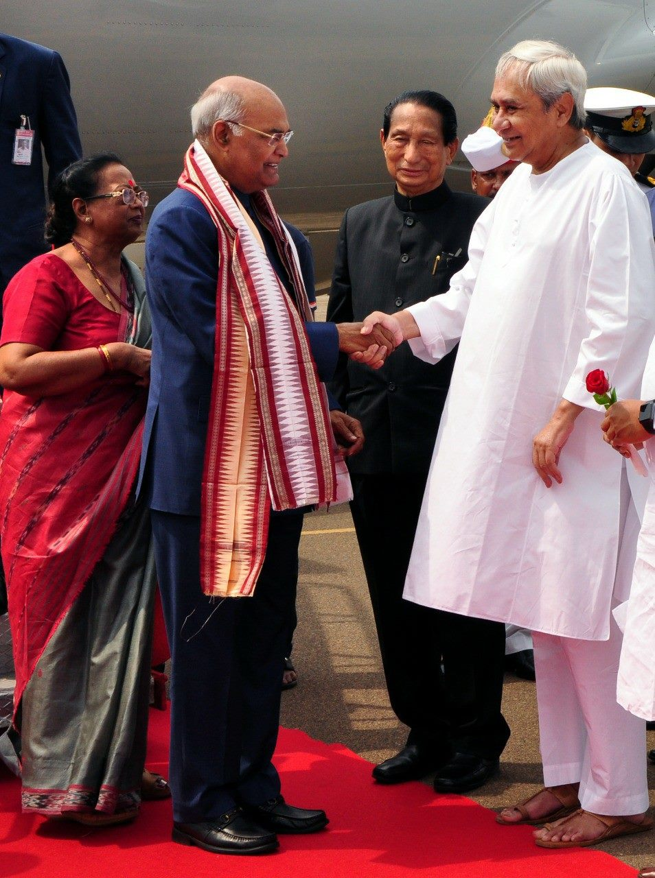 CM Naveen Patnaik receiving President Kovind from Bhubaneswar Airport